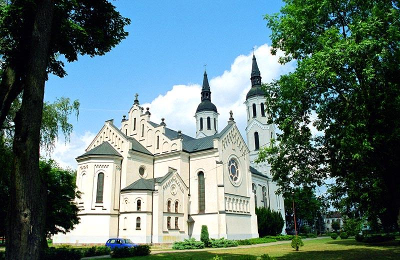 Augustow in Poland